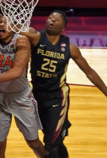 Kerry Blackshear, Jr., with the 2 point basket for the Hokies